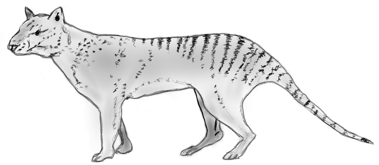 Artistic representation of Thylacinus potens, related to the Thylacine.